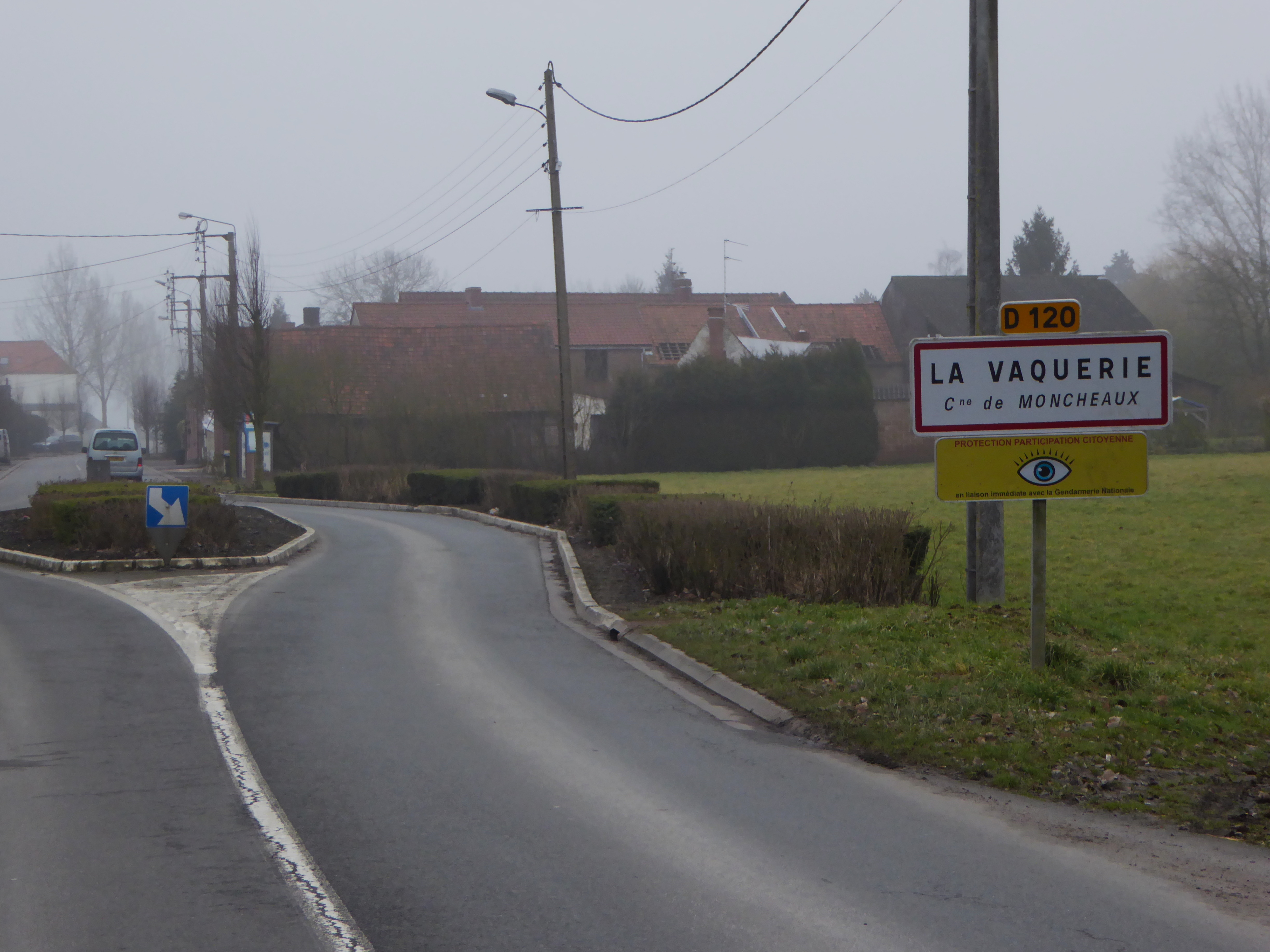 City limit signs in Moncheaux, Nord.- France